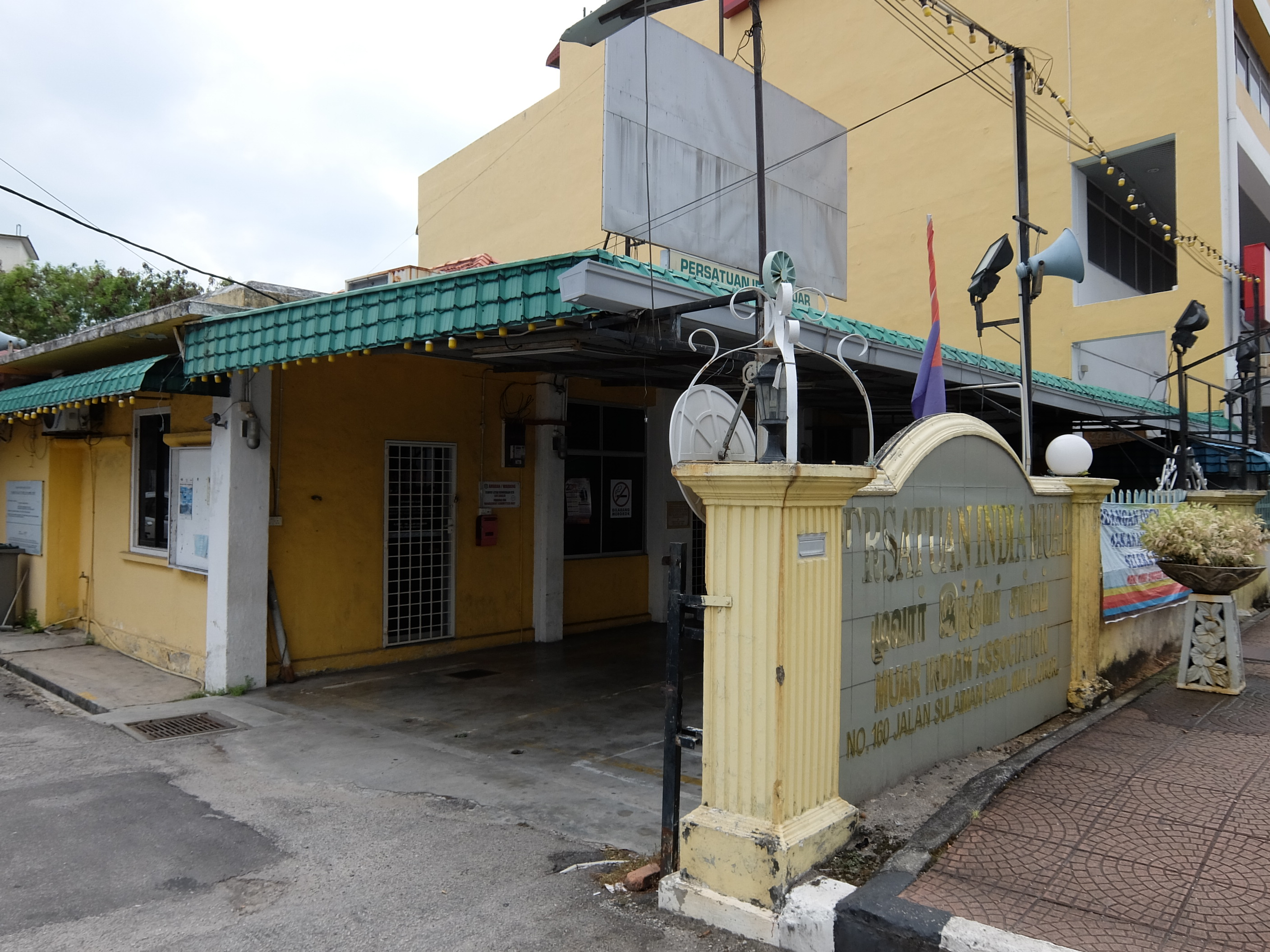 Muar Indian Association, Bandar Maharani, Muar, Johor, Malaysia